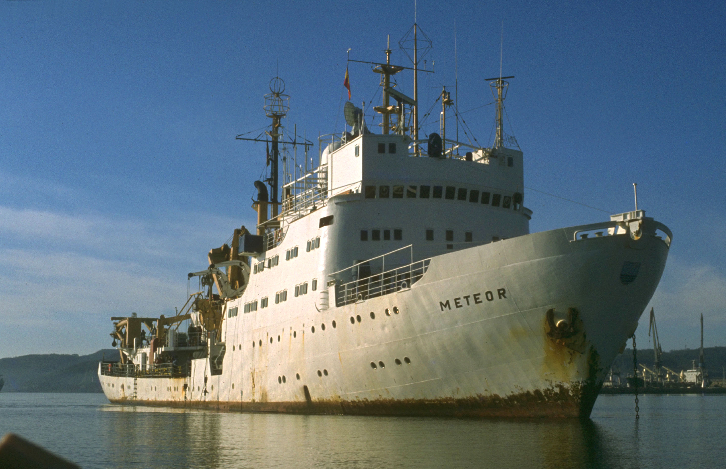 Research vessel METEOR (1964) in the harbour of Las Palmas de Gran Canaria during expedition M60 in 1982